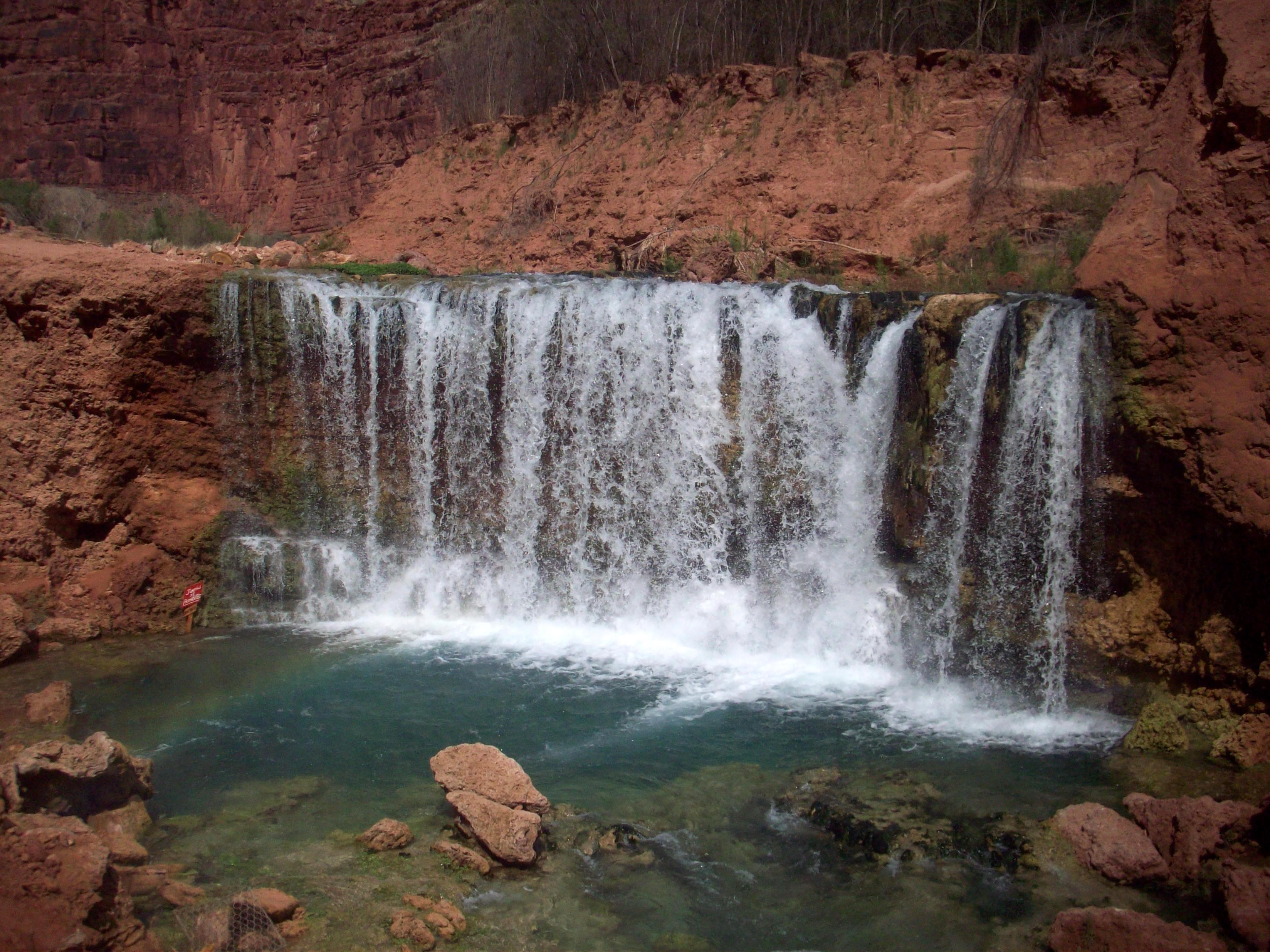 One of the new waterfalls created by the August 2008 flood in Havasupai. These falls are named Rock Falls and are located just below the trail between Supai and the former Navajo Falls.